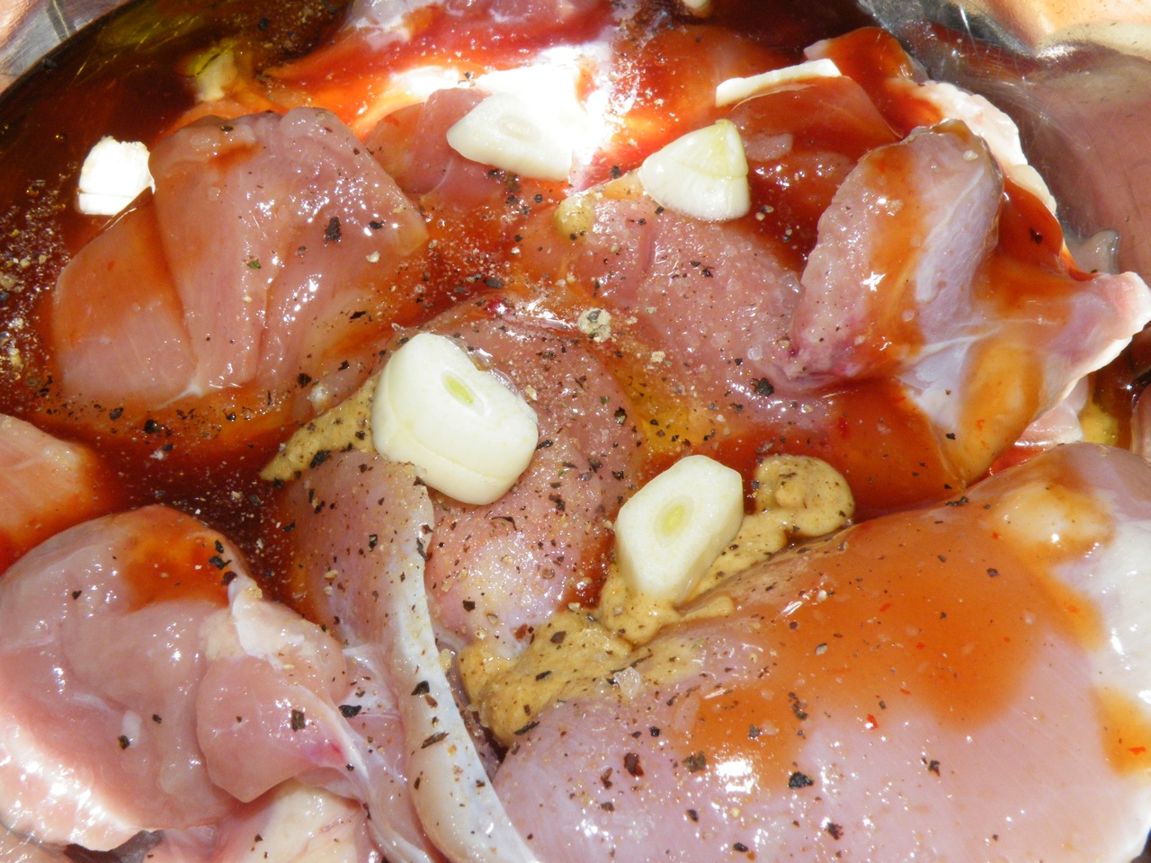 Teriyaki-like marinade for chicken thighs